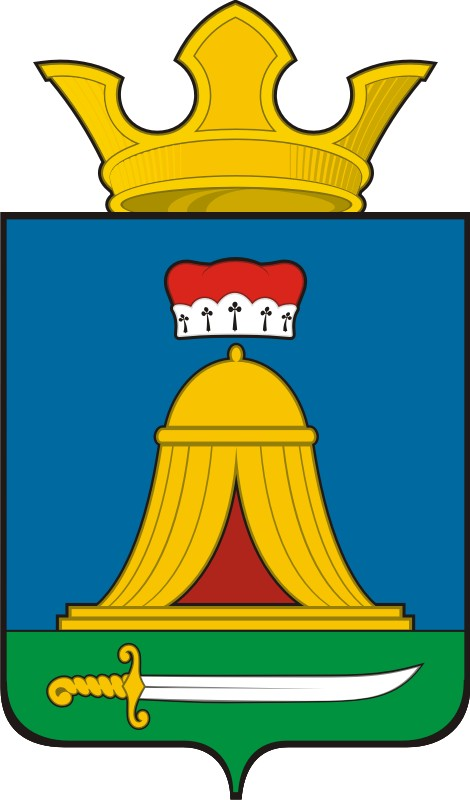 Tabory (Sverdlovsk oblast), coat of arms